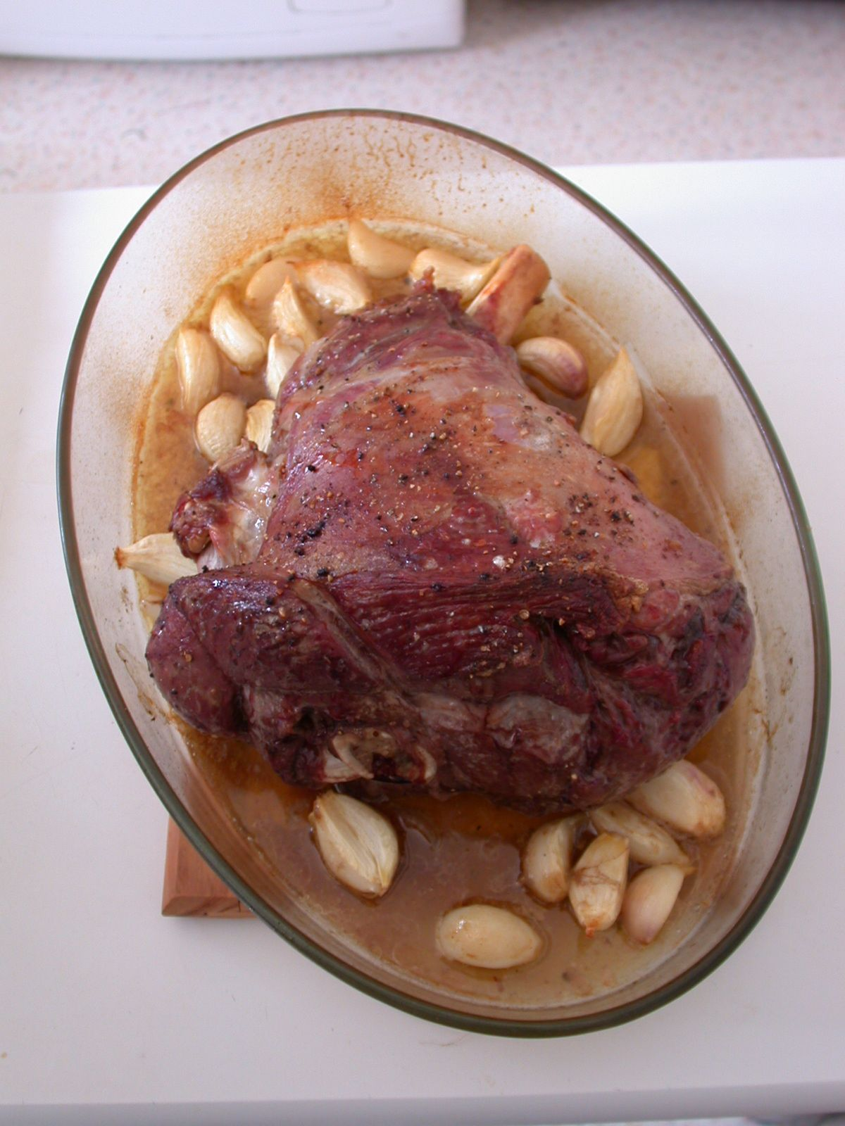 Leg of lamb cooked with garlic